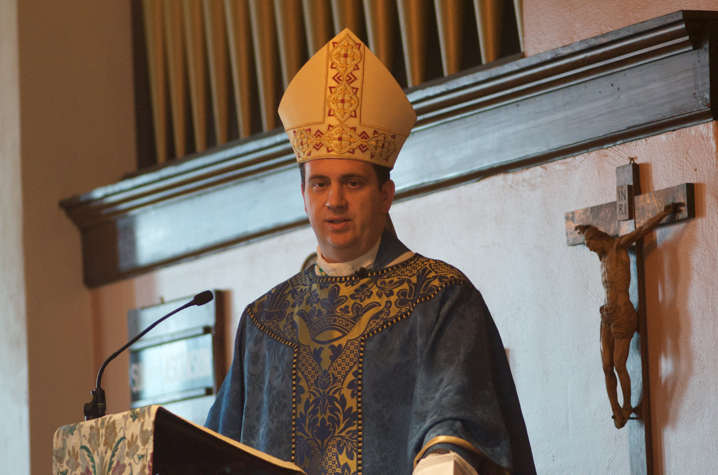 Bishop Steven J. Lopes at St John the Evangelist, Calgary